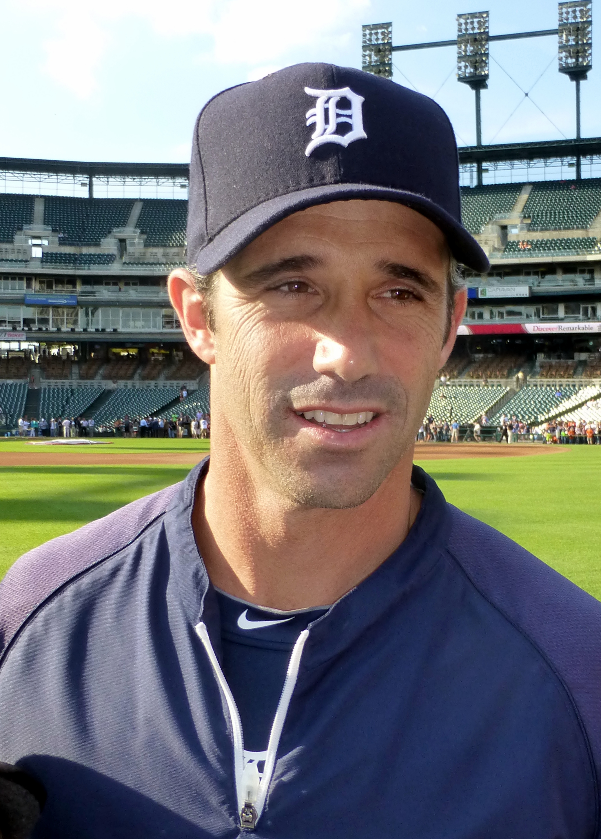 Brad Ausmus in 2014